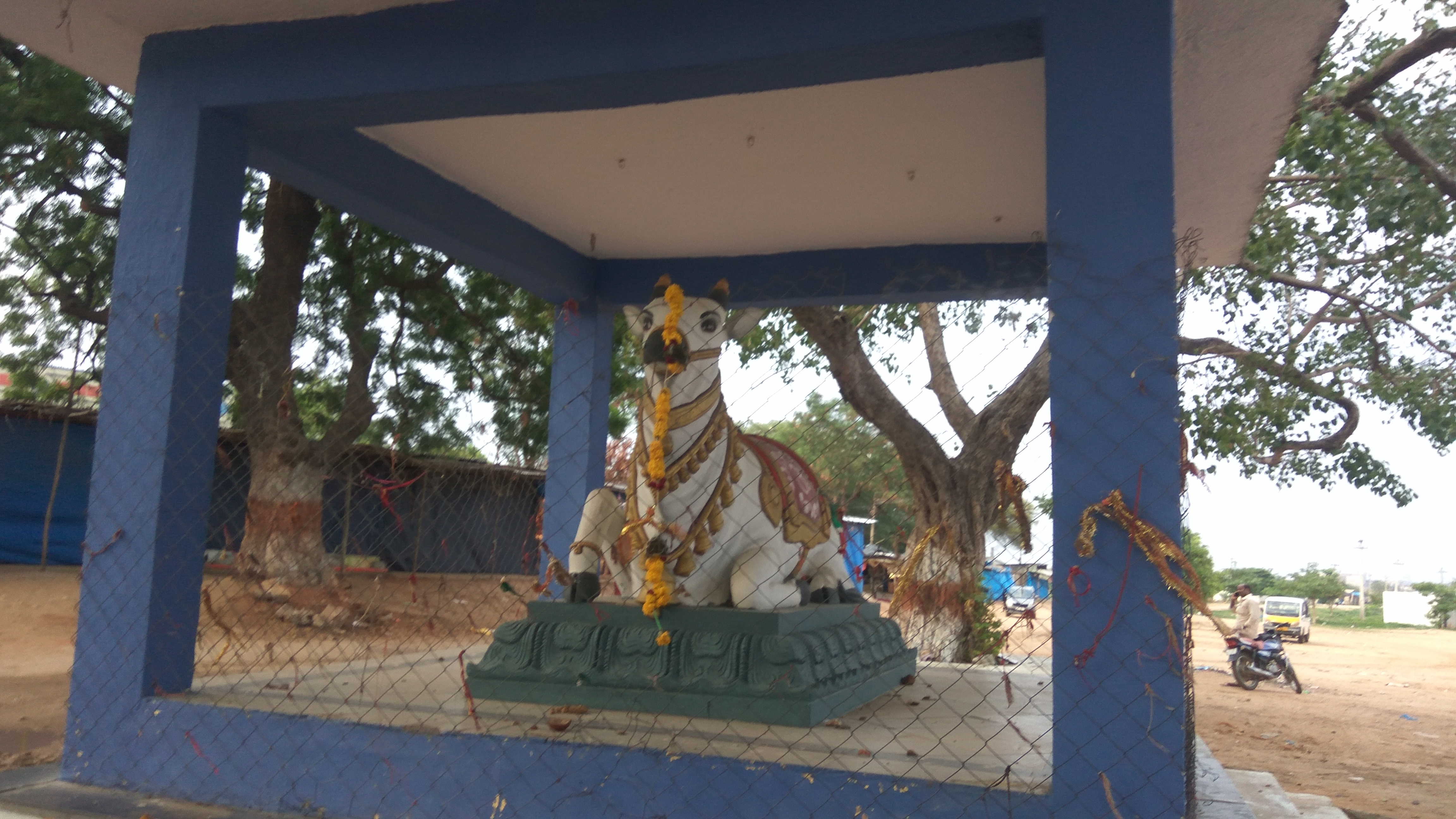 Nandi in Rameshwara Temple, Raikal, Farooqnagar, Mahbubnagar District,Telangana State